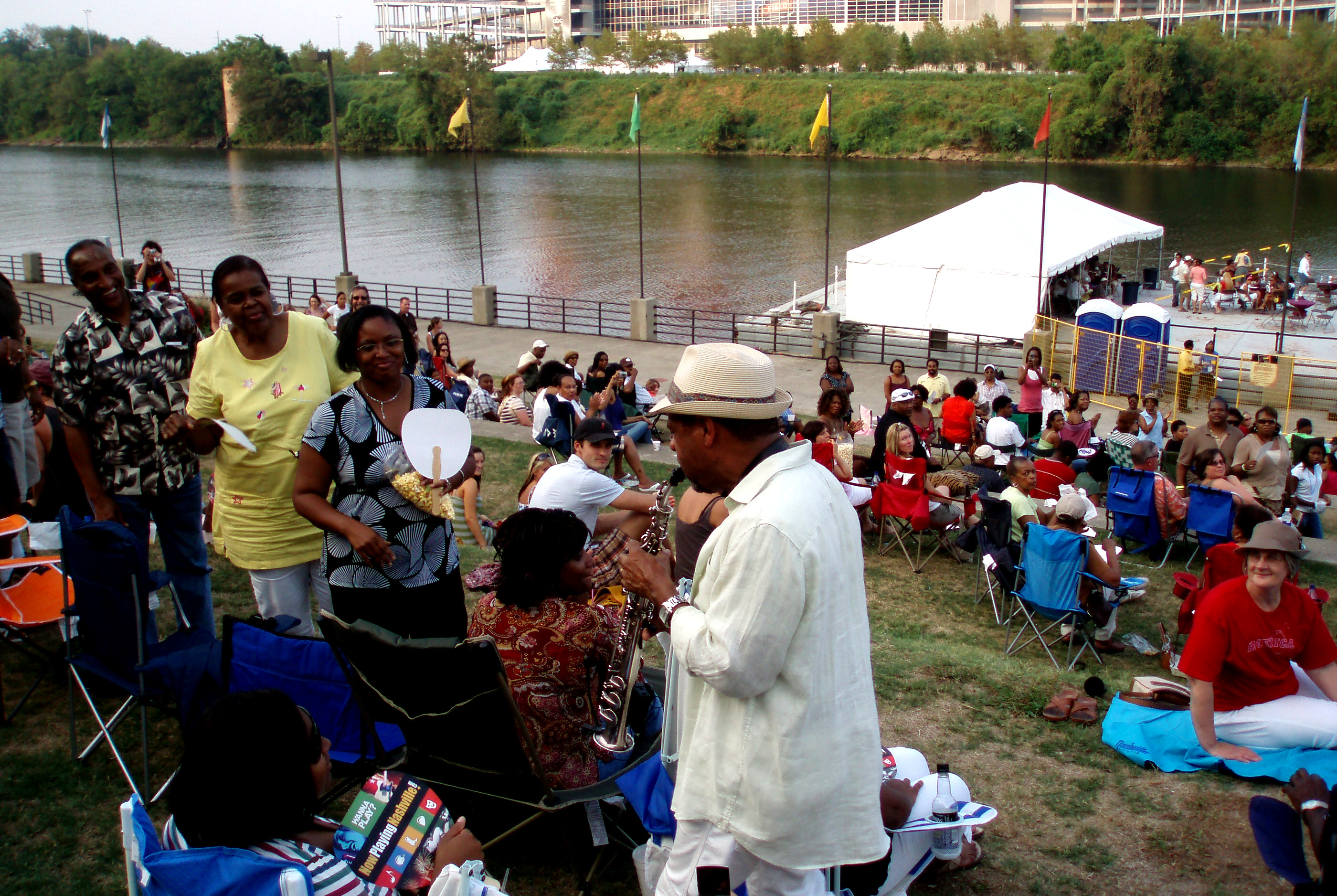 Kirk Whalum visiting the audience at a 2007 Jazz event in Nashville